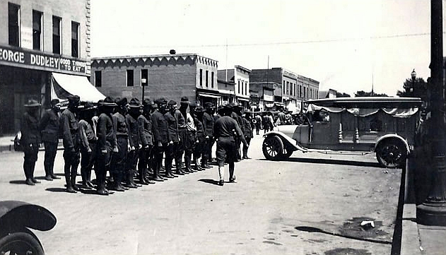 Honor Guard on August 11, 1921 in Akron, Iowa, for Private Albert E. Hoschler, the first person from Akron to enlist for service in the World War I, and the first person from Akron to be killed in battle in France (on March 5th, 1918).